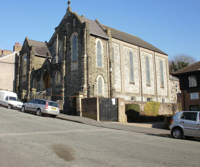 Summerhill Baptist Church, Newport Located near the top of Albert Avenue. Summerhill Baptist Chapel opened for services here in June 1866, on a site that was formerly the orchard of Fair Oak Farm. Additions and improvements resulted in the exterior seen here, largely unchanged since 1907.